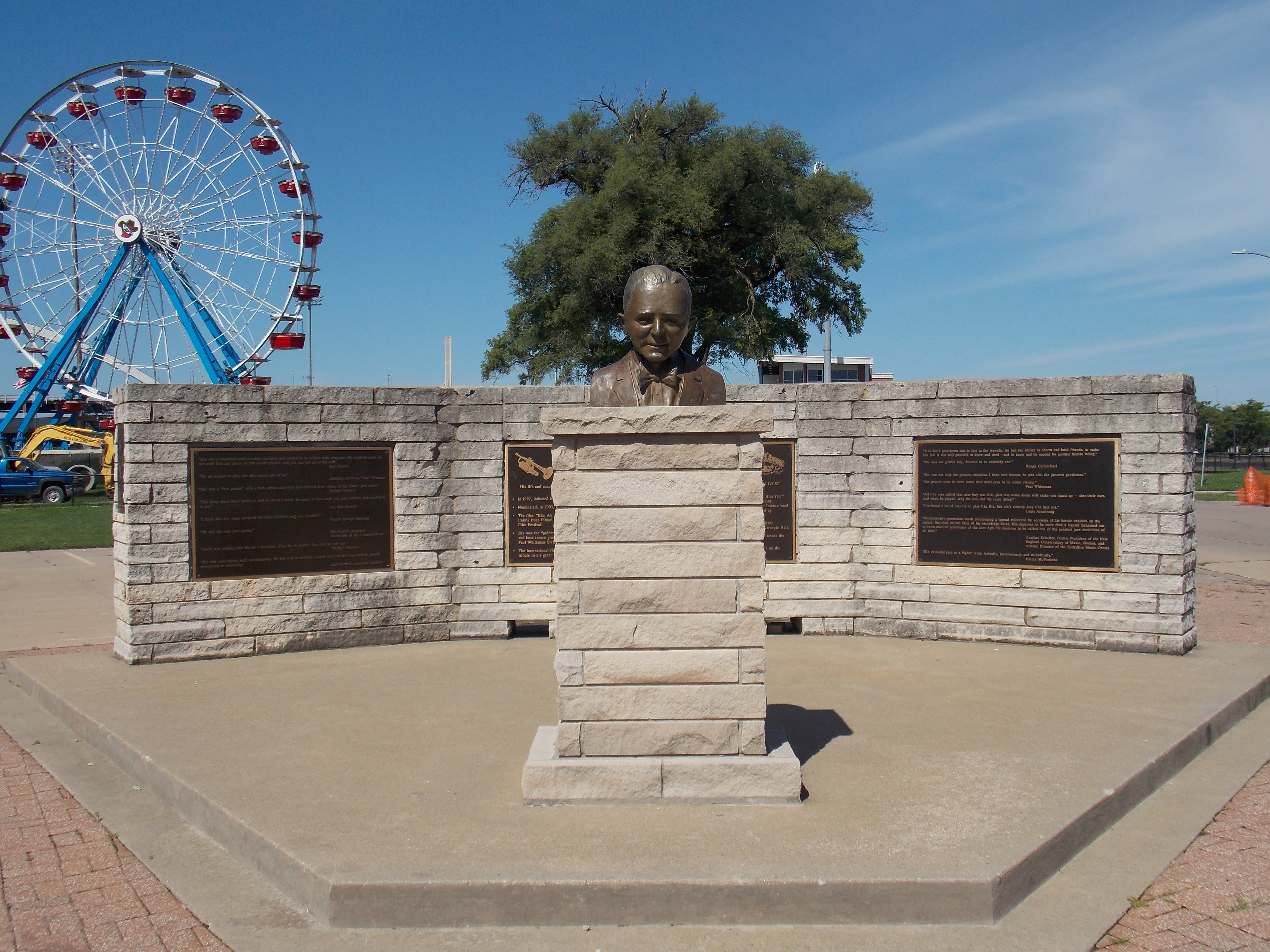 The Bix Beiderbecke Memorial in Le Claire Park along the Mississippi River in Davenport, Iowa.